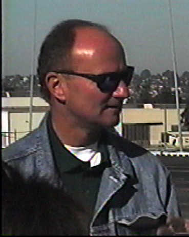 Lucki Stipetic tours the aircraft carrier U.S.S Constellation in San Diego, California, USA. This is a frame from a home video taken shortly before the release of the movie Little Dieter Needs to Fly. Dieter Dengler, Gene Deatrick, Werner Herzog, and others toured the carrier with Lucki.